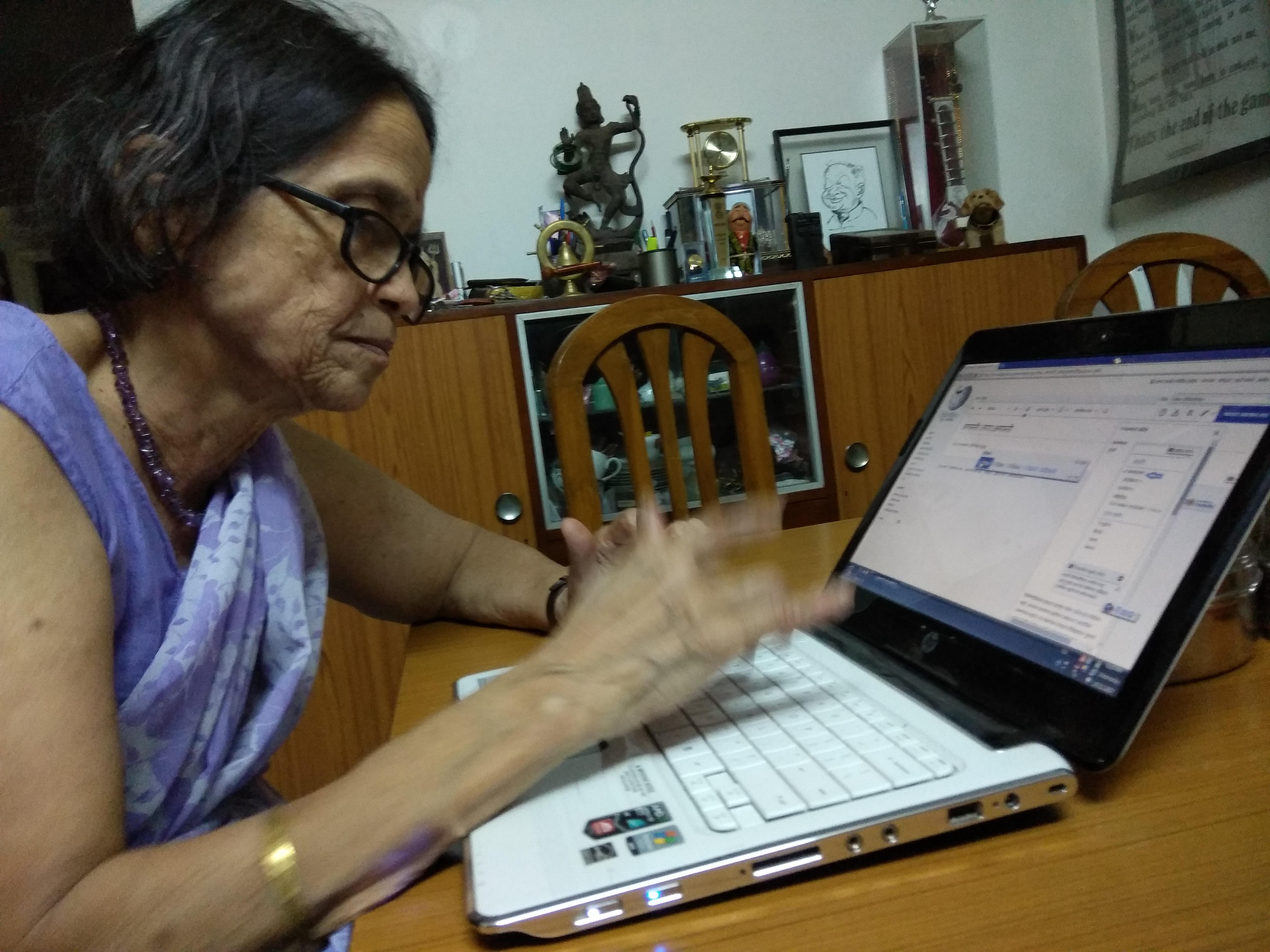 Dr. Mangala Naralikar editing on Marathi wikipedia.